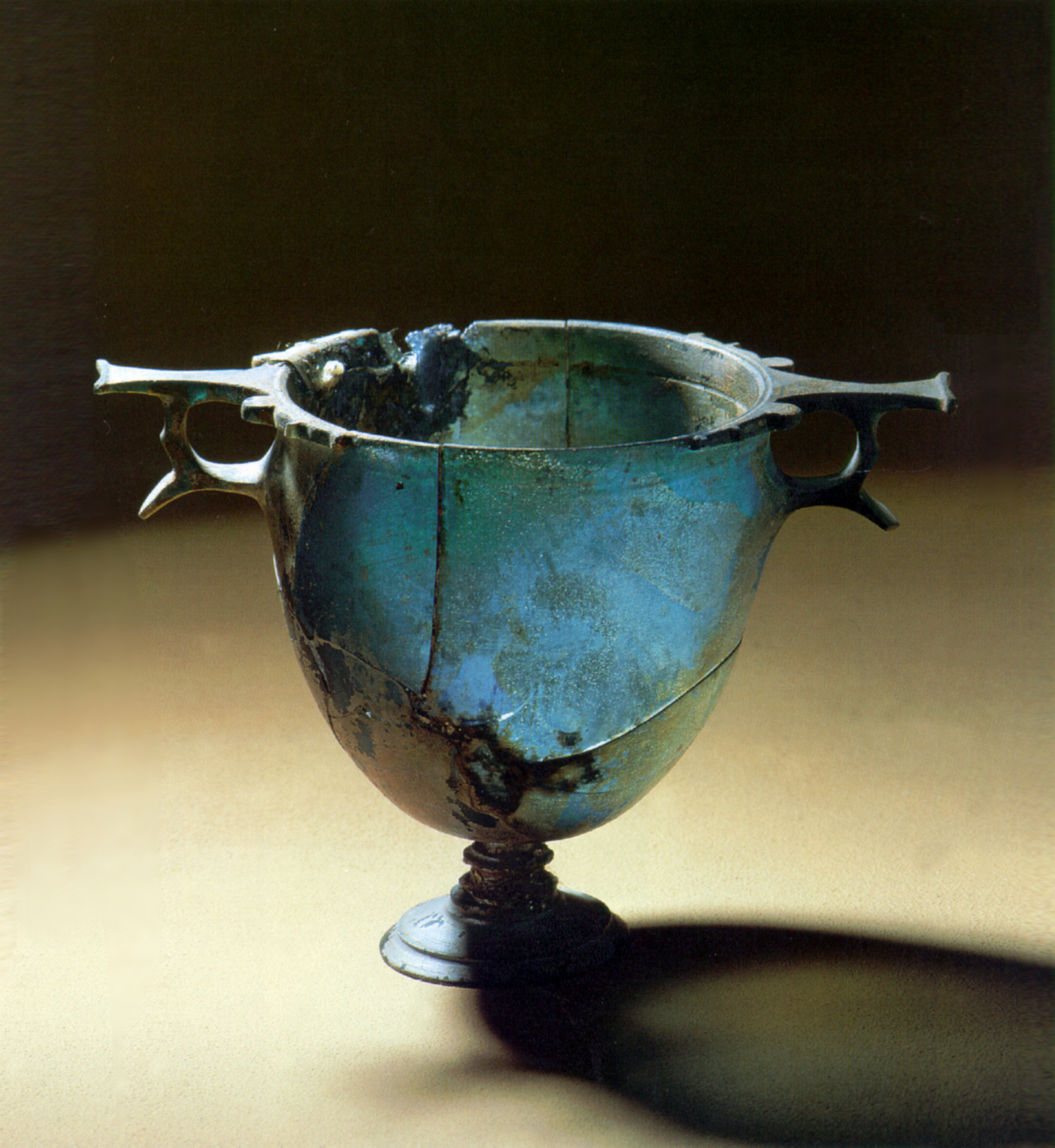 Skiphos. Eastern Mediterranean. First half of I c. Hermitage